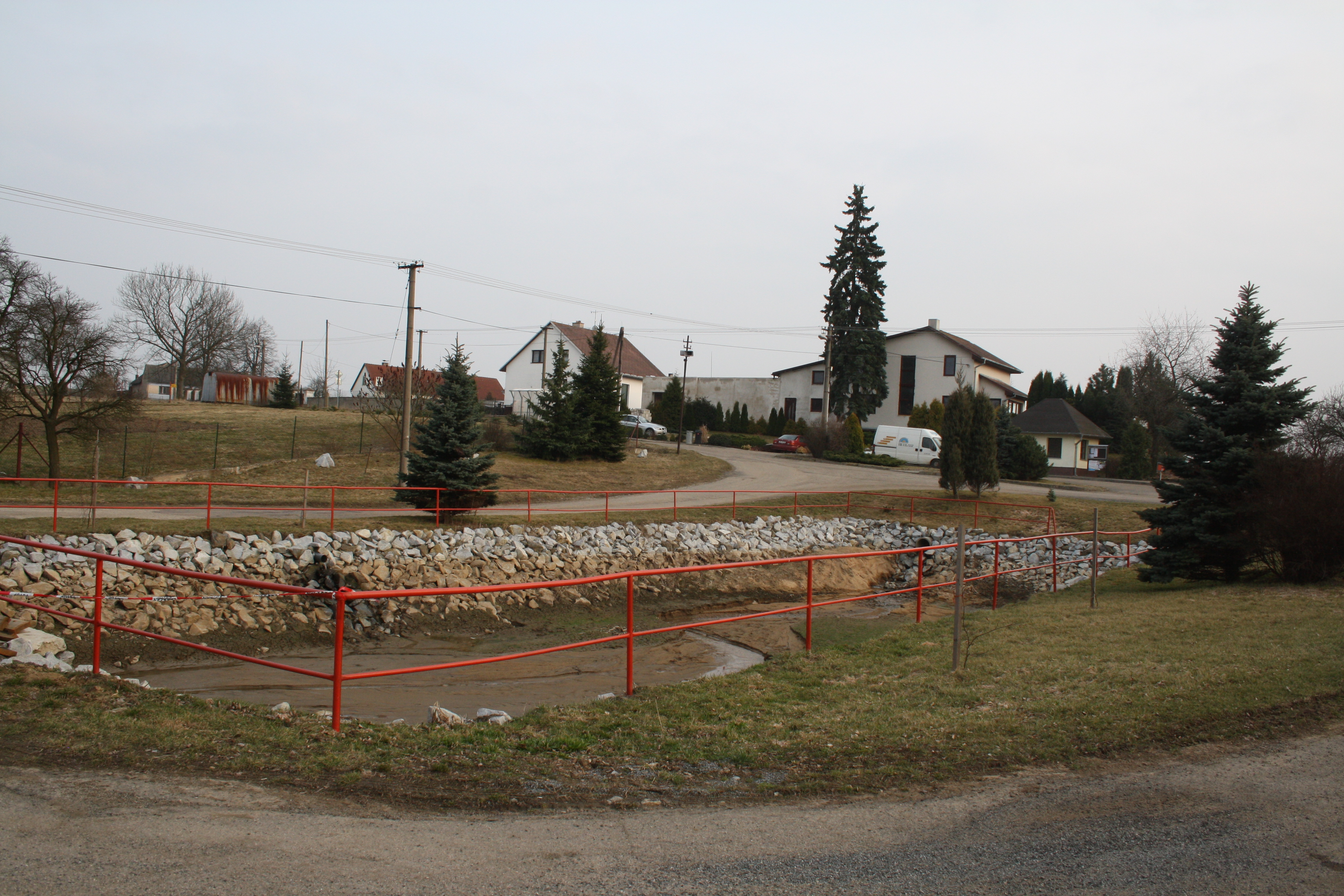 Center with pond in Chroustov.